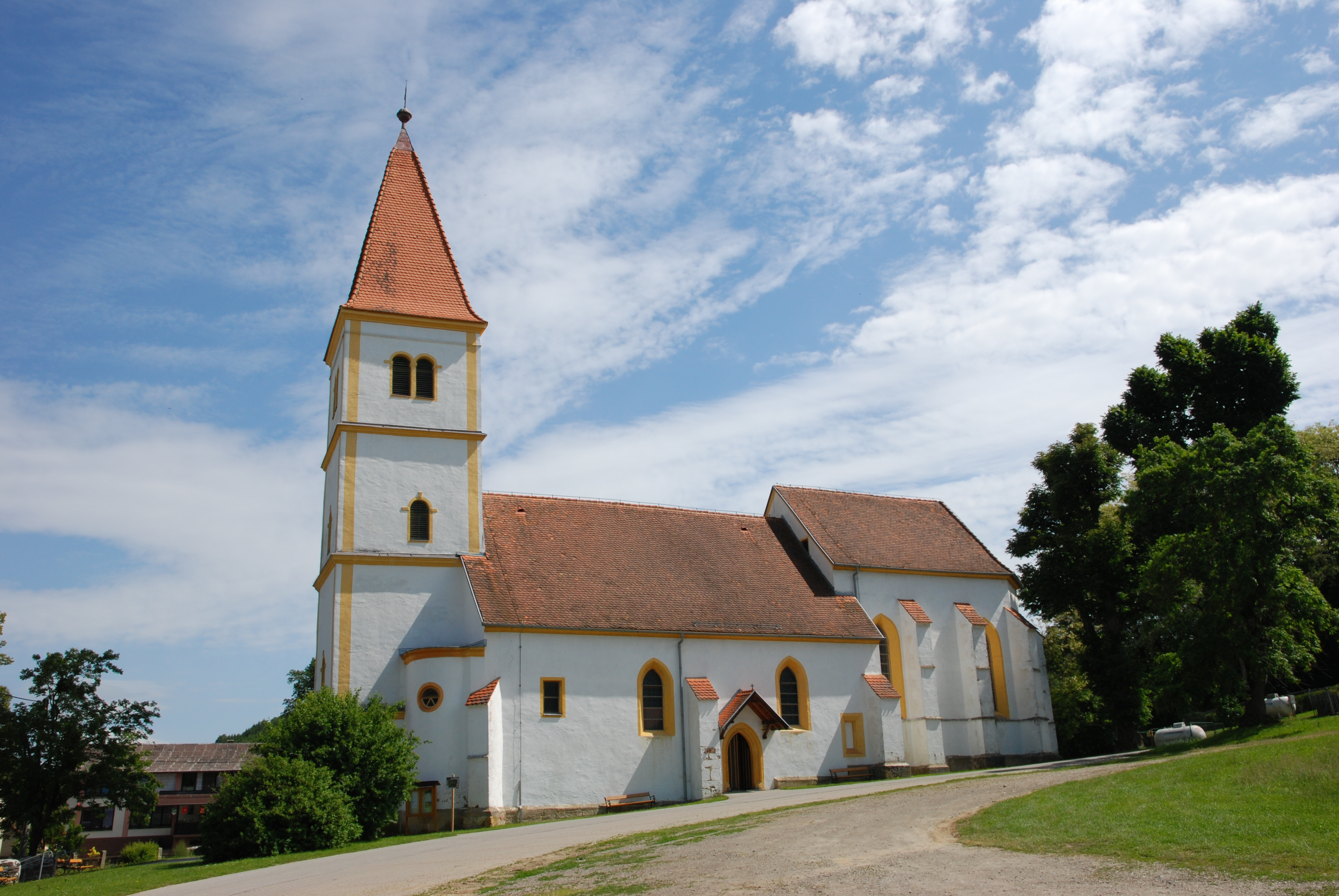 Church Grad